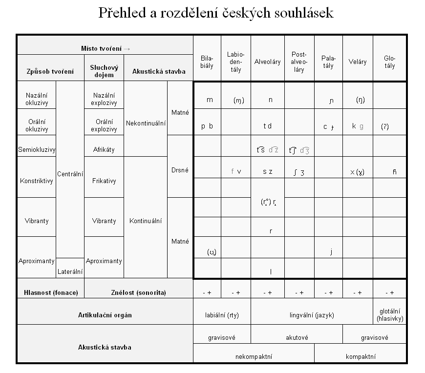 List and division of Czech consonants.